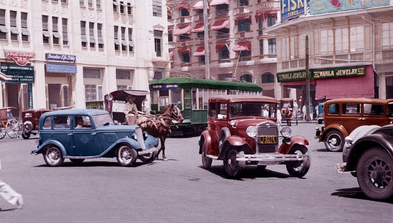 Beautiful streets of Binondo, Manila